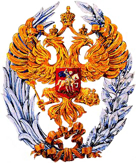 The medal of laureate of State Prize of Russian Federation